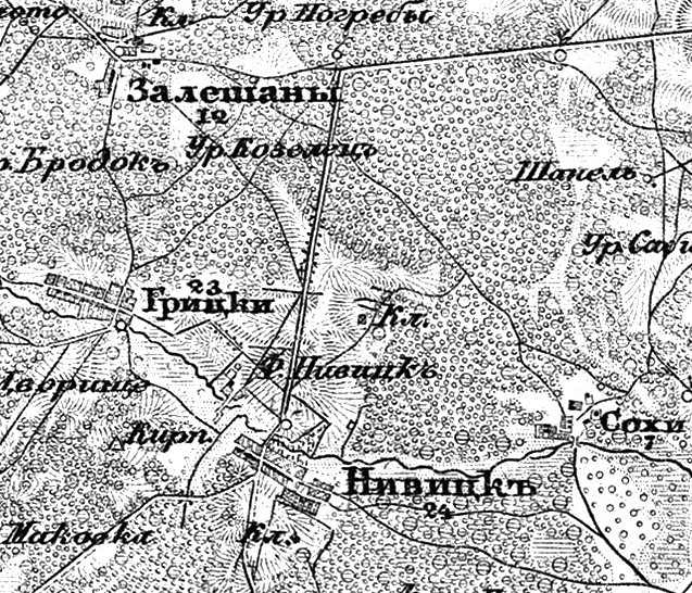 Nyvetsk on the map "Военно-топографическая карта Российской Империи" (known as "Schubert's map"), XX 5, 1866-1887 (issued in 1913).